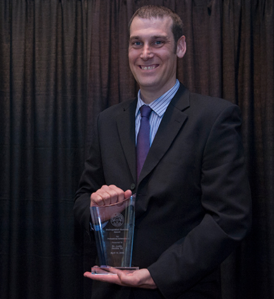 Dr. Jacobs received Carroll University’s Distinguished Alumni Award.